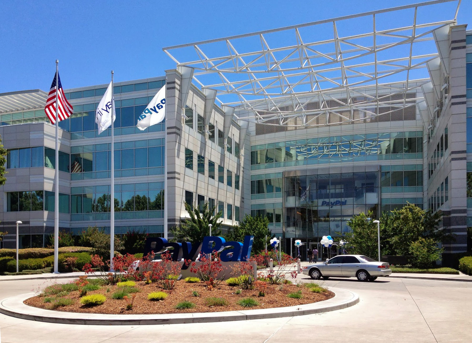 HQ of PayPal. 2211 N First St, San Jose, California, USA.